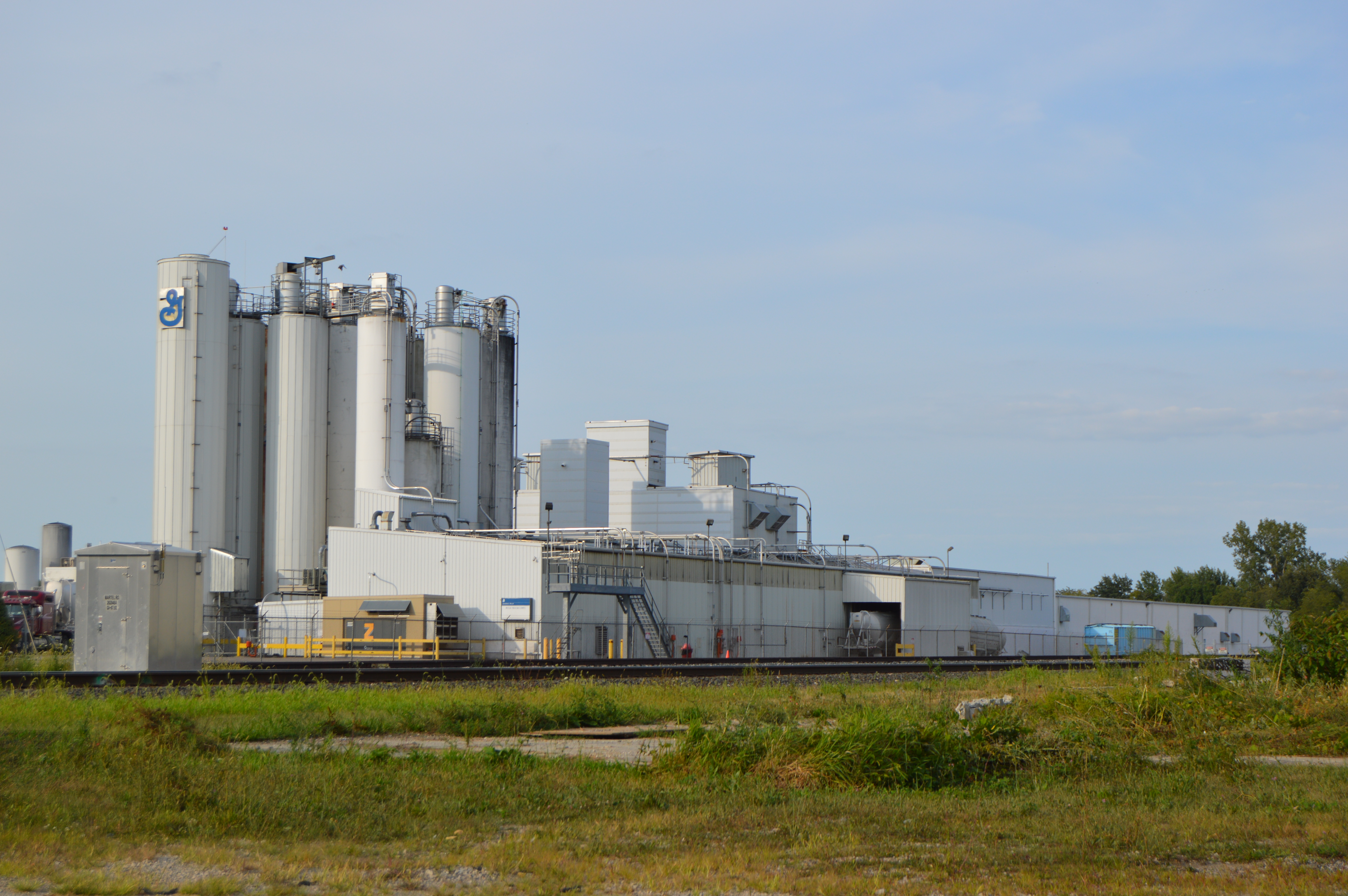 View from the southwest of the General Mills processing plant on Martel Road in Martel, Ohio, United States.